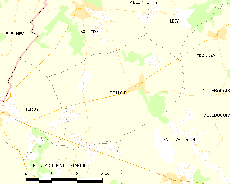 Map of French municipality Dollot